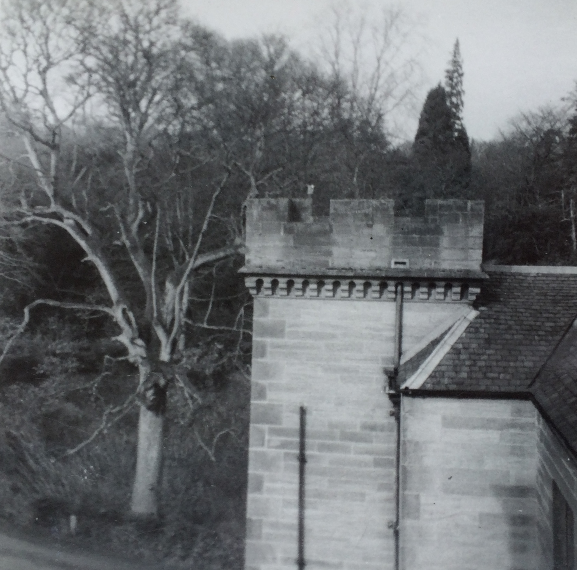 View of one of the turrets which are part of Oxenfoord Castle